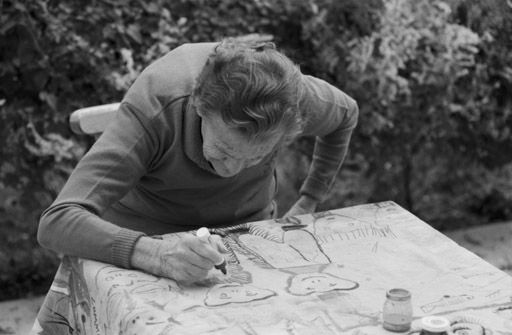 Resident of a nursing home in Munich (Germany)